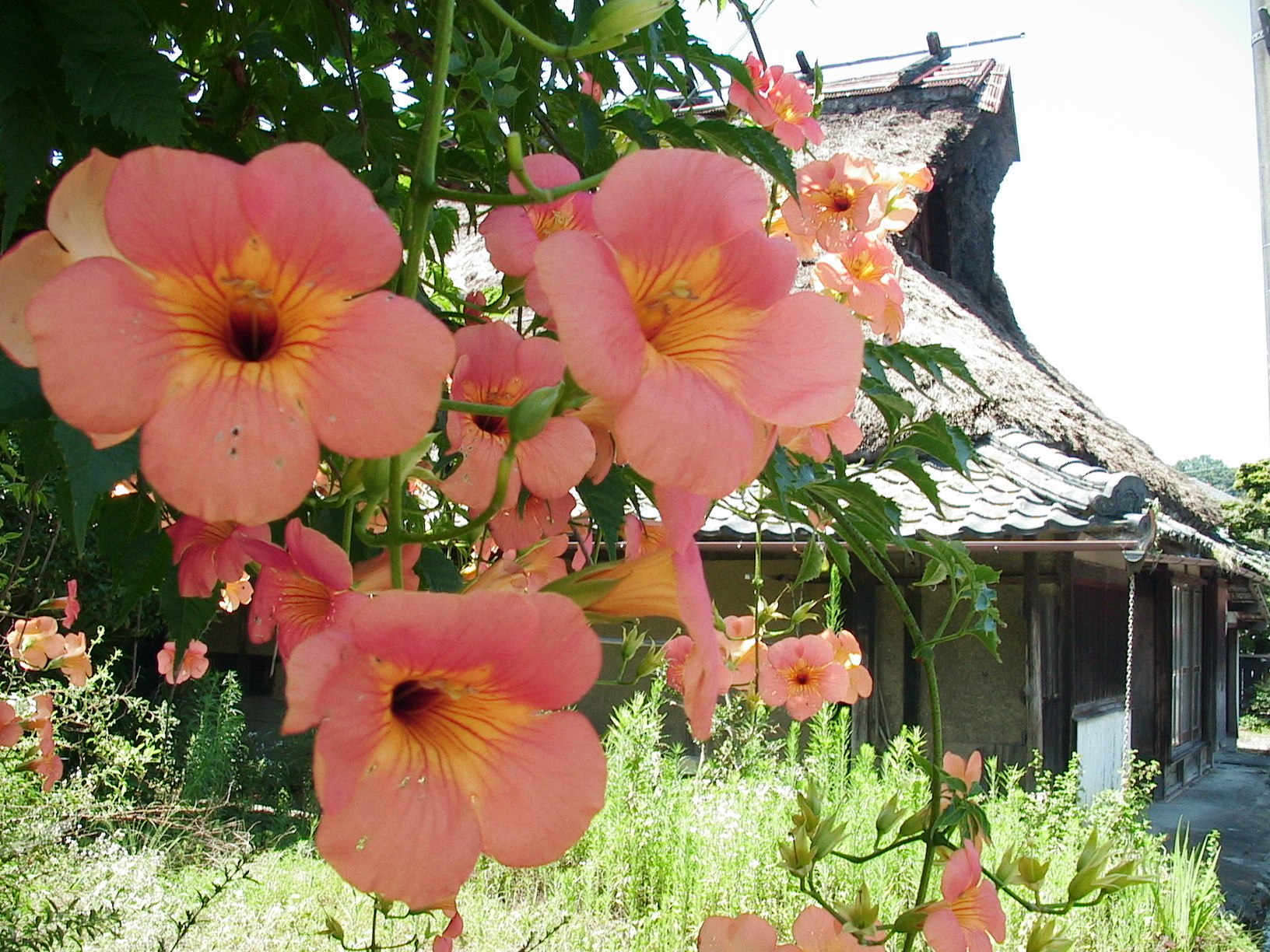 Kaya House and trumpet creeper